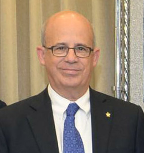 sitting in the middle is reuven Rivlin, president of Israel. Sitting on the left is Menachem Ben-Sasson, President of the Hebrew University of Jerusalem. Standing on the left is Yinam Leef, president of the Jerusalem Academy of Music and Dance. Second from left is Daniel Zajfman, President of Weizmann Institute of Science. Fourth from the left is Joseph Klafter, President of Tel Aviv University. Third from right is Yehuda Danon, President of Ariel university. Fourth from right is Ariella Levenshtein. sixth from right is Daniel Hershkowitz President of Bar_Ilan University.